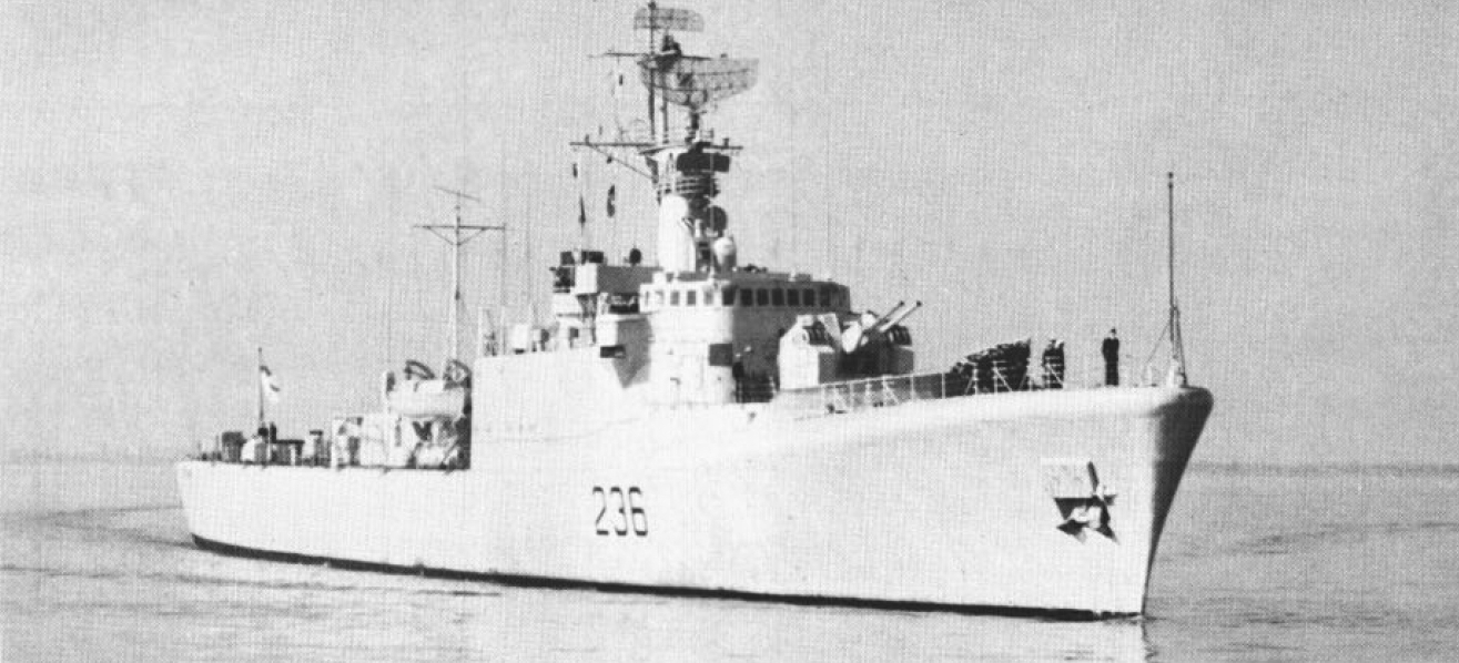 The Royal Canadian Navy Restigouche-class destroyer HMCS Gatineau (DDE 236) underway, circa 1974.